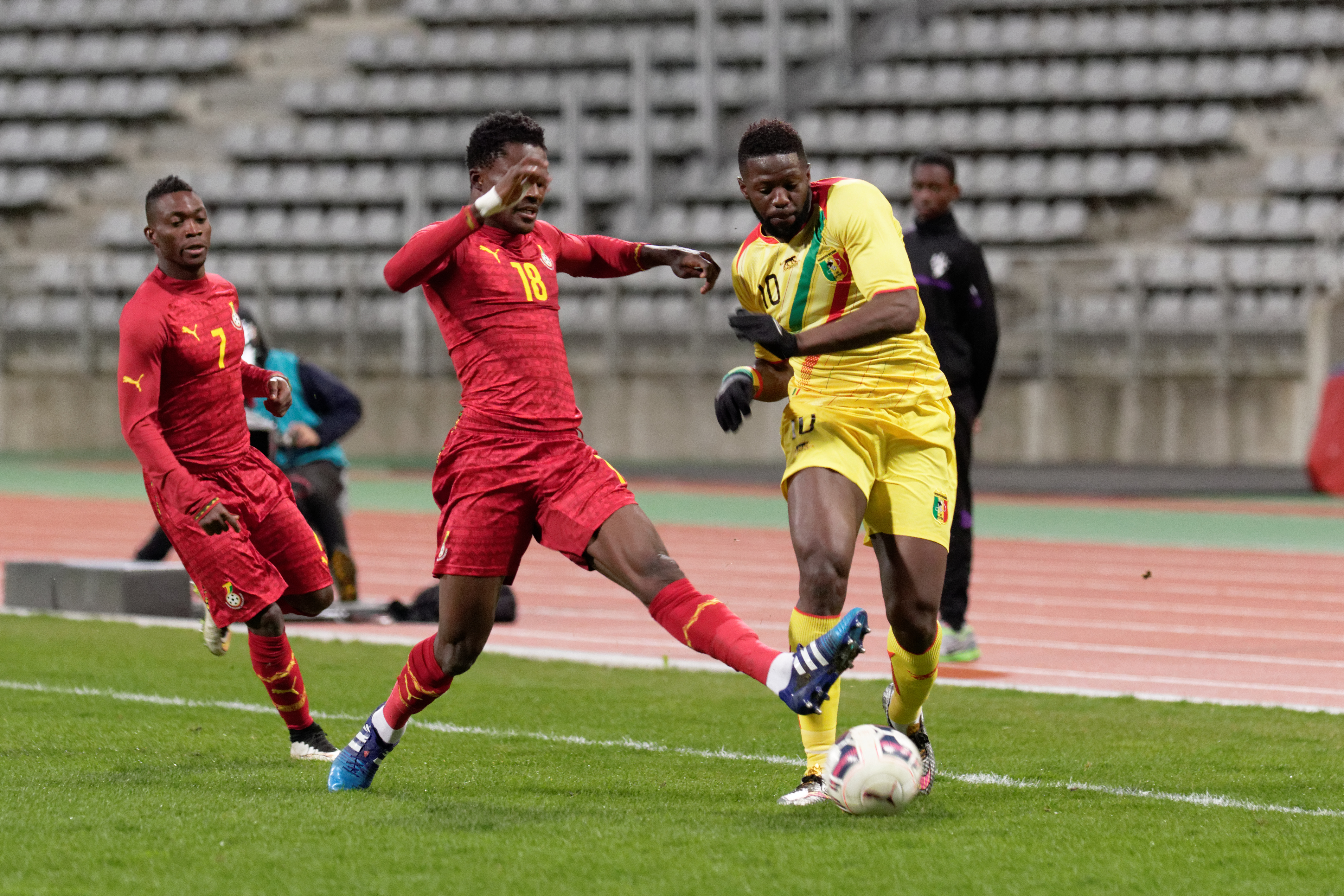 Mali vs Ghana, exhibition game at Paris, 31st March 2015.